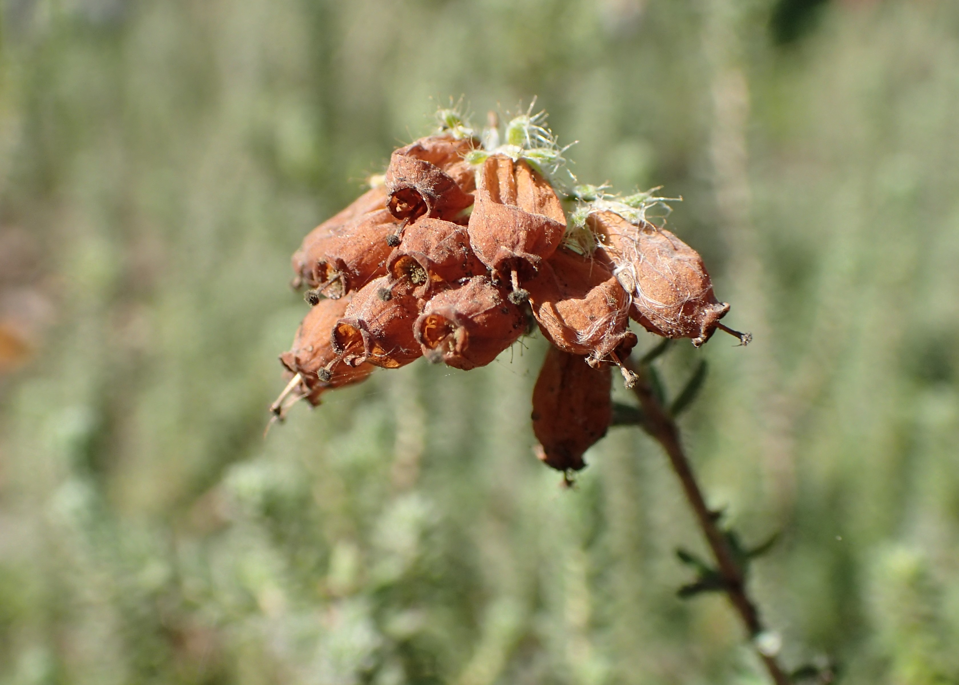 Erica tetralix in the UMCS Botanical Garden in Lublin